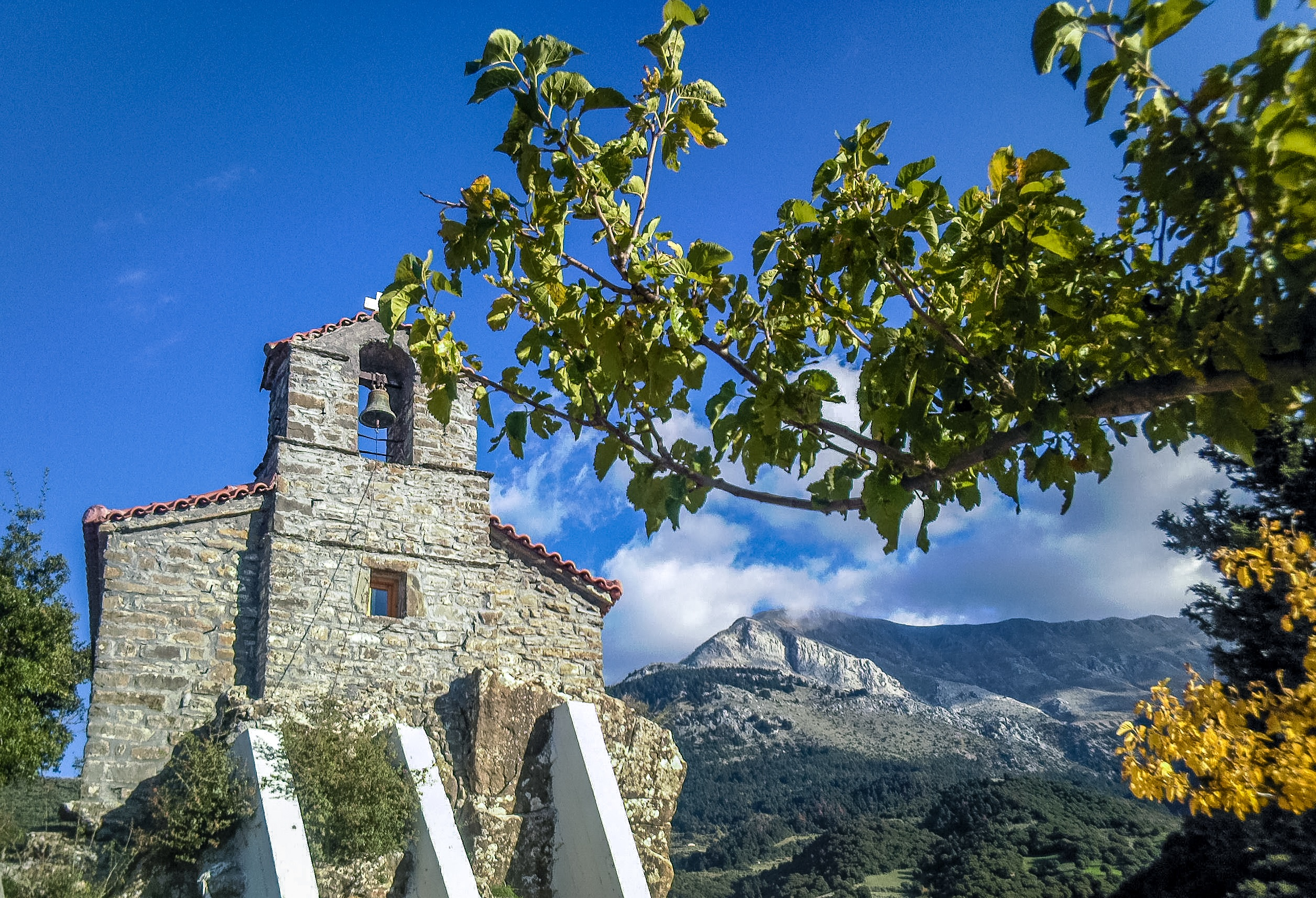 Autumn view of Velimachi village in Achaia, Greece.